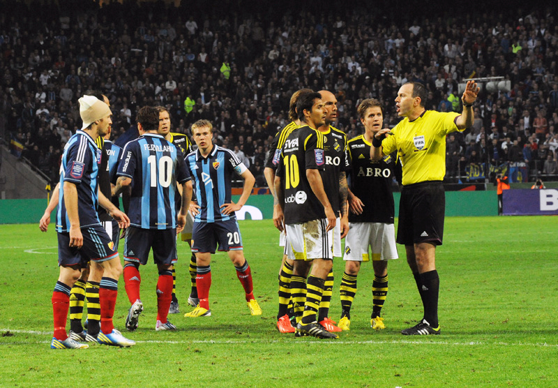 AIK-Djurgården 1-1